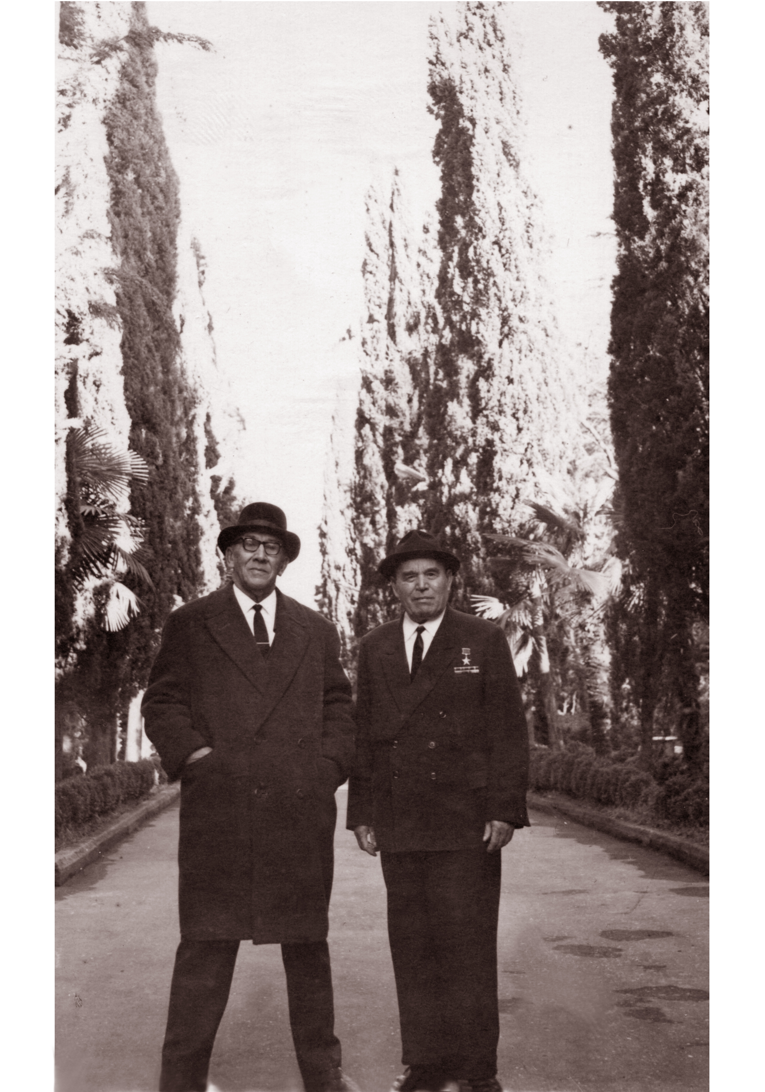 P.I. Voskresensky with the hero of of the Brest fortress Pyotr Mikhailovich Gavrilov, December 1969